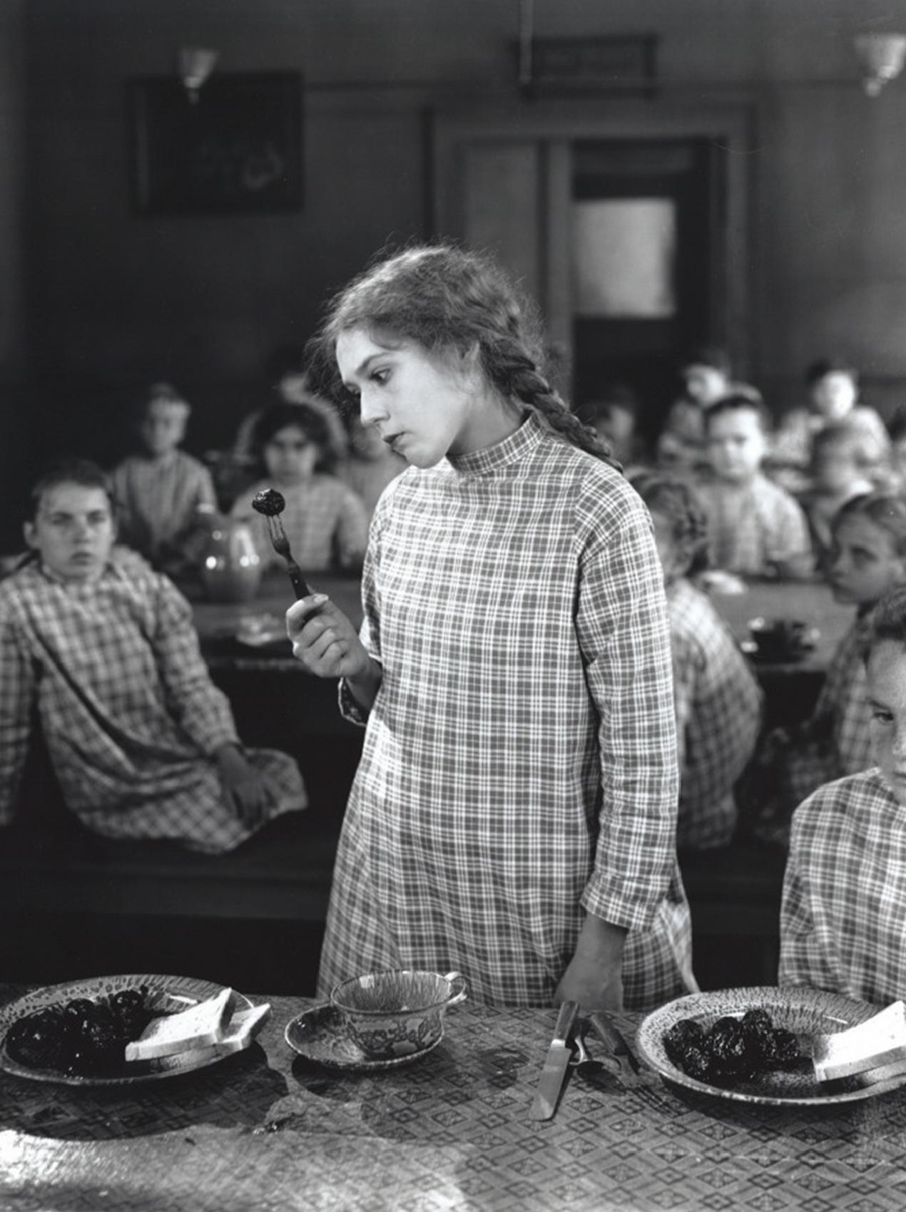 Mary Pickford in Daddy-Long-Legs - cropped screenshot